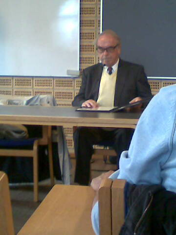 Jürgen Moltmann at Aarhus University 29.03.2012